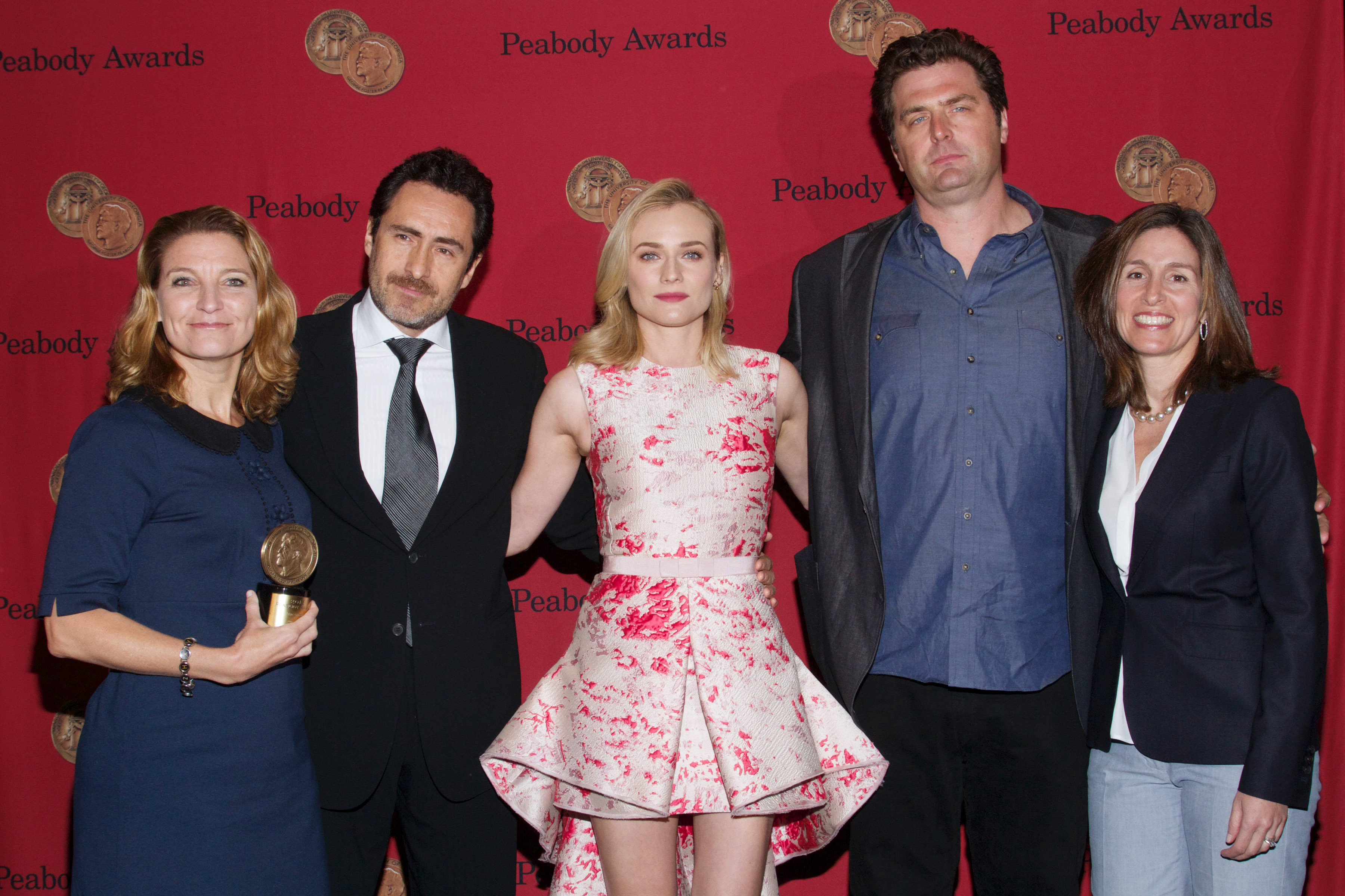 Meredith Stiehm, Demian Bechir, Diane Kruger and Elwood Reid at the 73rd Annual Peabody Awards for "The Bridge"